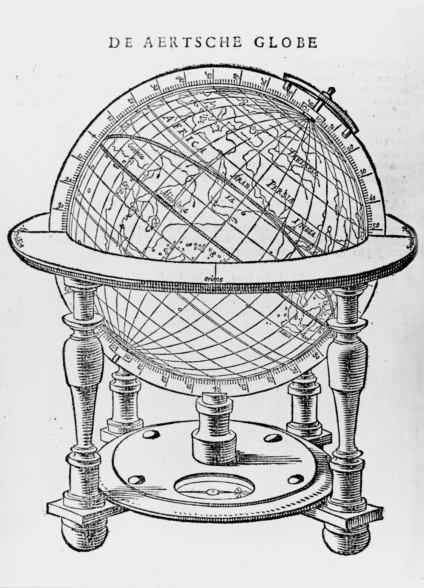 A drawing of Emery Molyneux's terrestrial globe from Robert Hues (1623) Tractaet ofte Handelinge van het gebruyck der Hemelscher ende Aertscher Globe: In't Latyn eerst beschreven door Robertvm Hves, Mathematicum / en nu in Nederduytsch over-geset en met diversche nieuwe Verklaringen en Figuren vermeerdert en verciert / oock vele disputable questien gesolveert, door Iohannem Isacivm Pontanvm, Medicyn, en Professor der Philosophie inde vermaerde Schole te Harderwyck, Amsterdam: Iudocus Hondius, woonende op den Dam